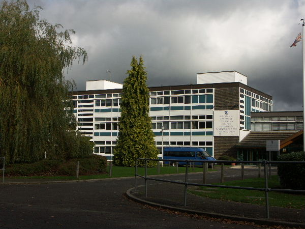 Applemore College, Dibden, Hants.